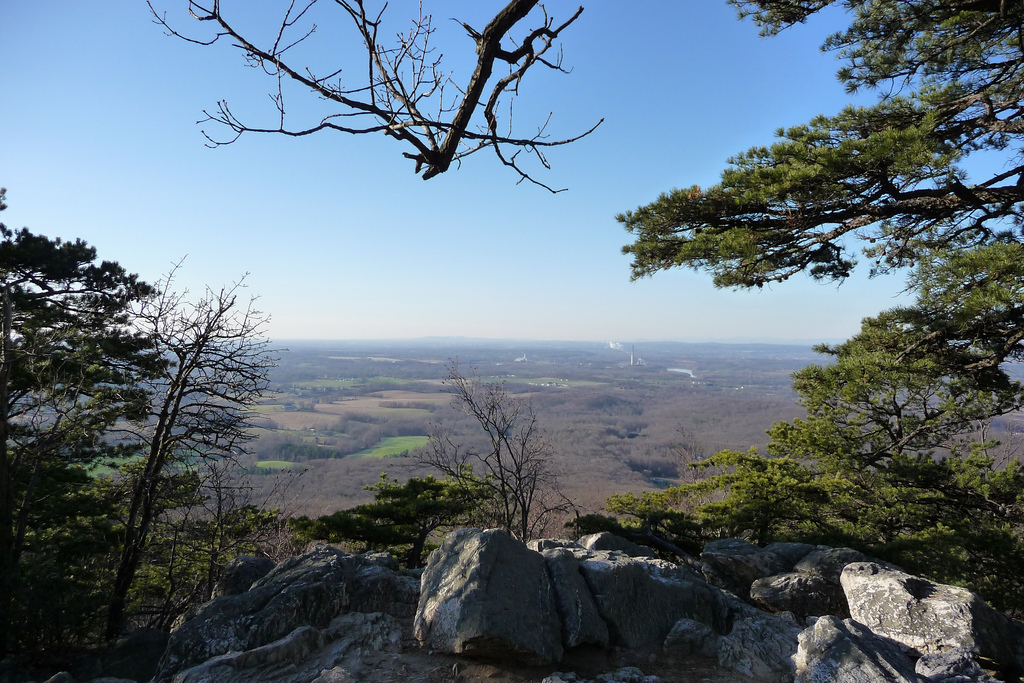 Sugarloaf Mountain-14, South view from the peak of Sugarloaf Mountain Location: Rural Montgomery County